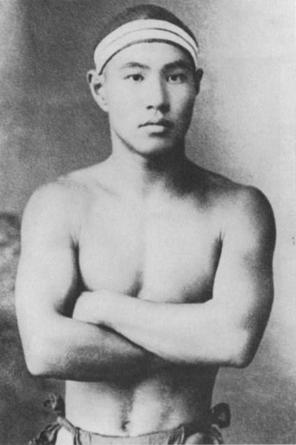 UCHIDA Masayoshi, a Japanese swimmer. This photo was taken when he was a student of preparatory school, Hokkaido Imperial University.